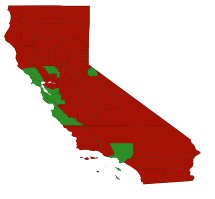 Proposition 13 results. Green is yes, red is no.